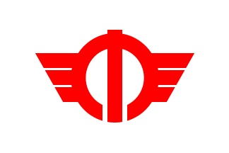 Flag of Minamiashigara Kanagawa